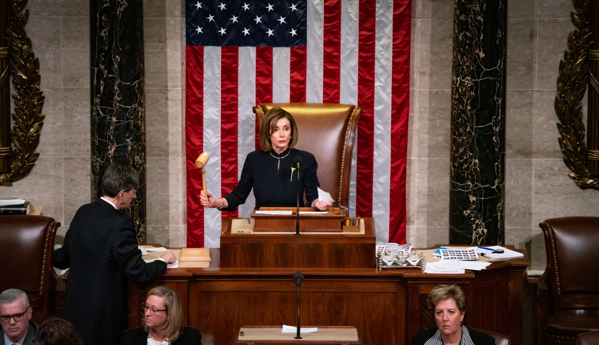 No one is above the law, Mr. President. #DefendOurDemocracy